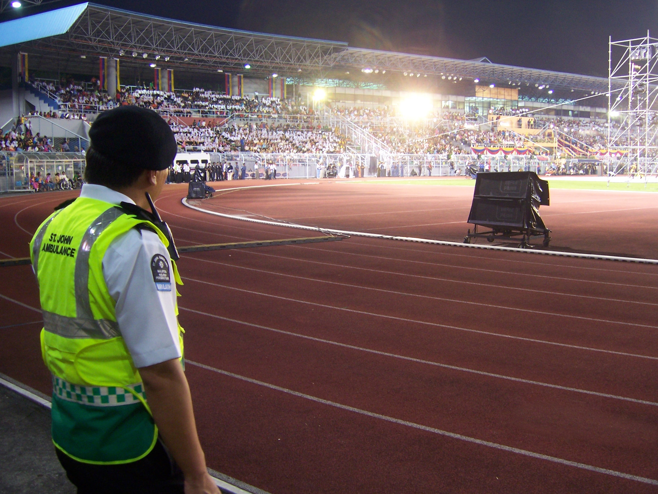 St John Ambulance of Malaysia volunteer on duty